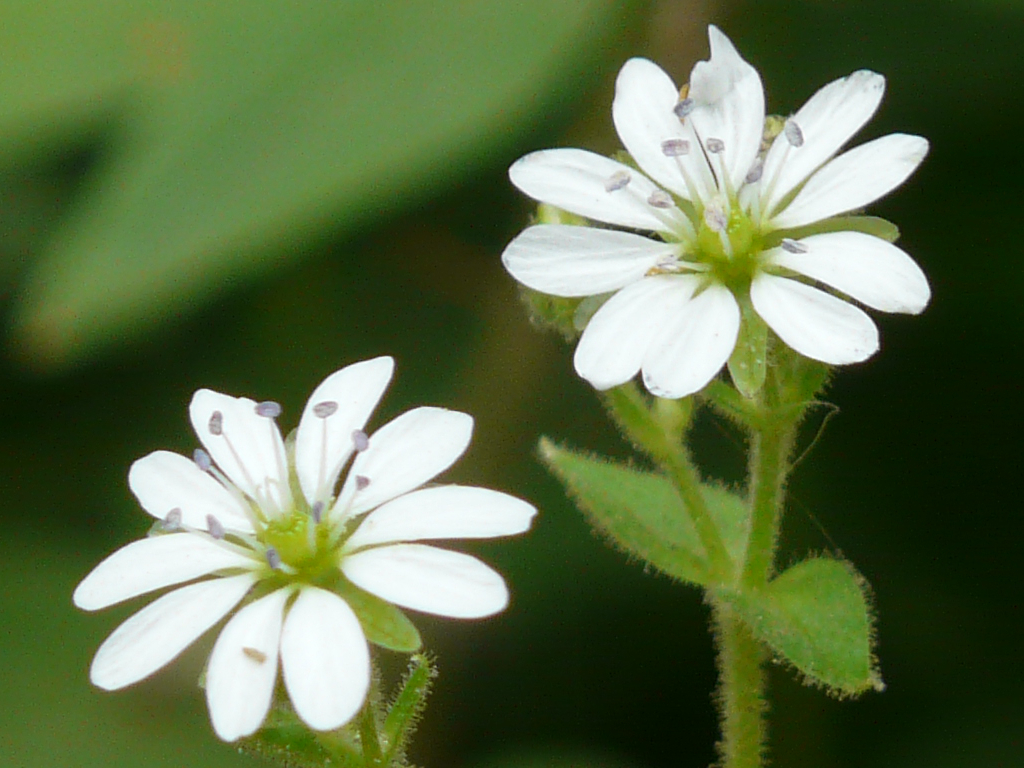 Caryophyllaceae (pink, or carnation family) » Stellaria media stell-AR-ee-uh -- stars, star-like ... Dave's Botanary MEED-ee-uh -- average, middle ... Dave's Botanary commonly known as: adder's mouth, chick wittles, chickweed, passerina, satin-flower, starweed, starwort, stitchwort • Hindi: बुच बुचा buch-bucha • Manipuri: যেৰুম কৈৰুম yerum keirum Native to: Europe, n Africa, temperate Asia; widely naturalized References: Flowers of India • Wikipedia • NPGS / GRIN • PIER species info